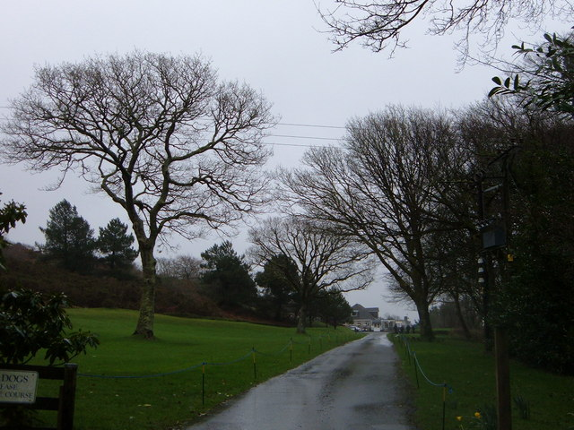 Looe Golf Club Entrance Drive Designed by six - times open champion, Harry Vardon, Looe Golf Club is set around an area of quite breathtaking beauty. The panoramic views from the course are stunning: to the east are the peaks of Dartmoor and the Tamar estuary, to the south, Looe Island and the channel, to the west and north, glorious countryside and the Cornish moors. The Club house comprises a bar, dining room, Professional shop and full changing room facilities and has the enviable reputation of being one of the friendliest clubs in the south - west.